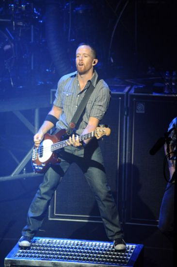 Dave Farrel